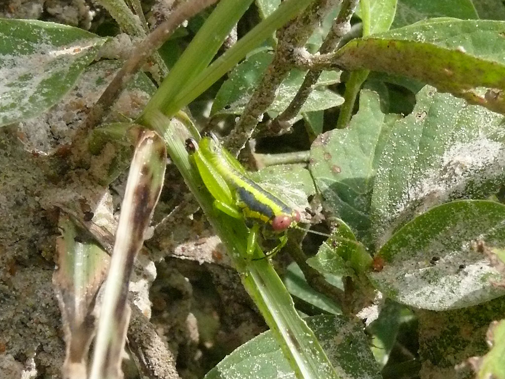 Male Chromousambilla latistriata photographed in Katavi National Park, Tanzania.